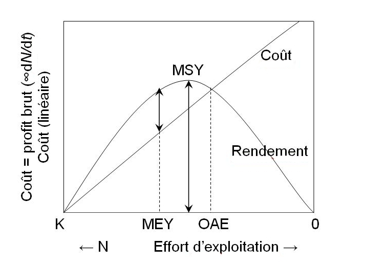 Graph showing four definitions of carrying capacity used in applied ecology. From: Hixon, M.A.; Brian Fath (2008) "Carrying Capacity" in Encyclopedia of Ecology, Oxford: Academic Press, pp. 528-530 Retrieved on 6 March 2009. ISBN: 978-0-08-045405-4.